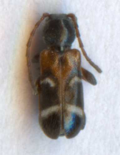 Poecilium alni sin. Phymatodes alni